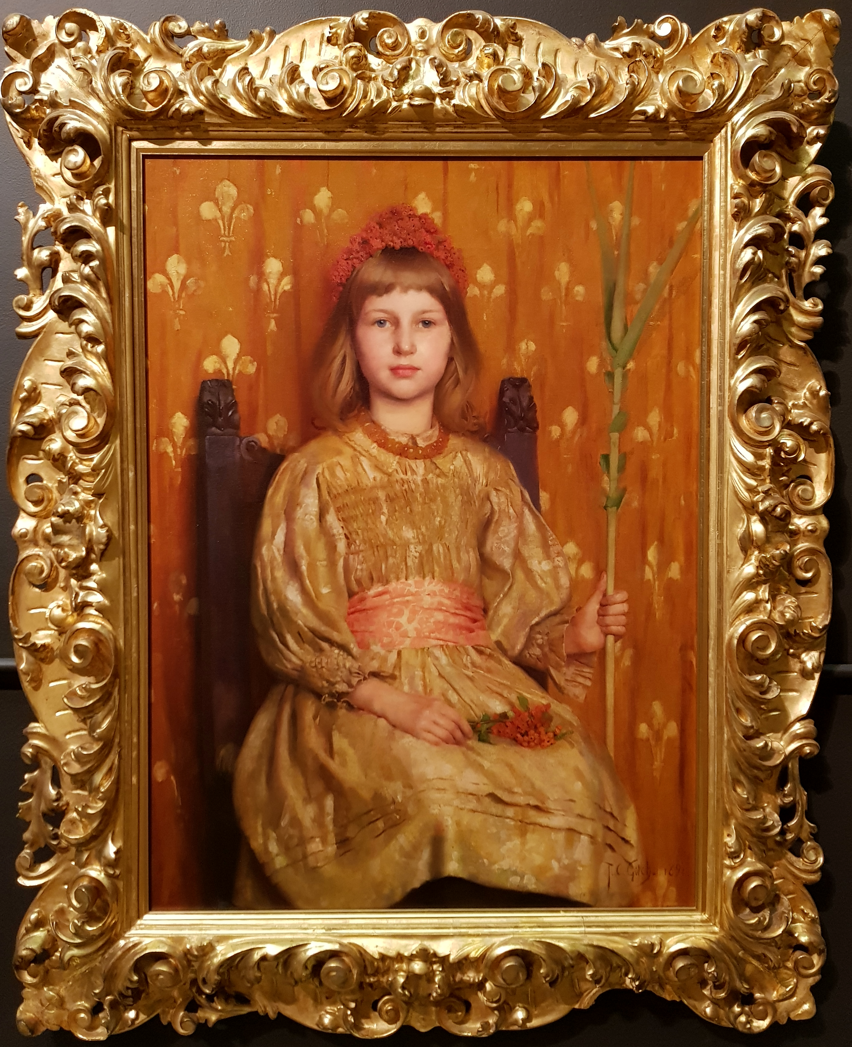 My Crown and Sceptre. (Depicted is the painter's daughter Phyllis during a visit to Florence 1891/2).